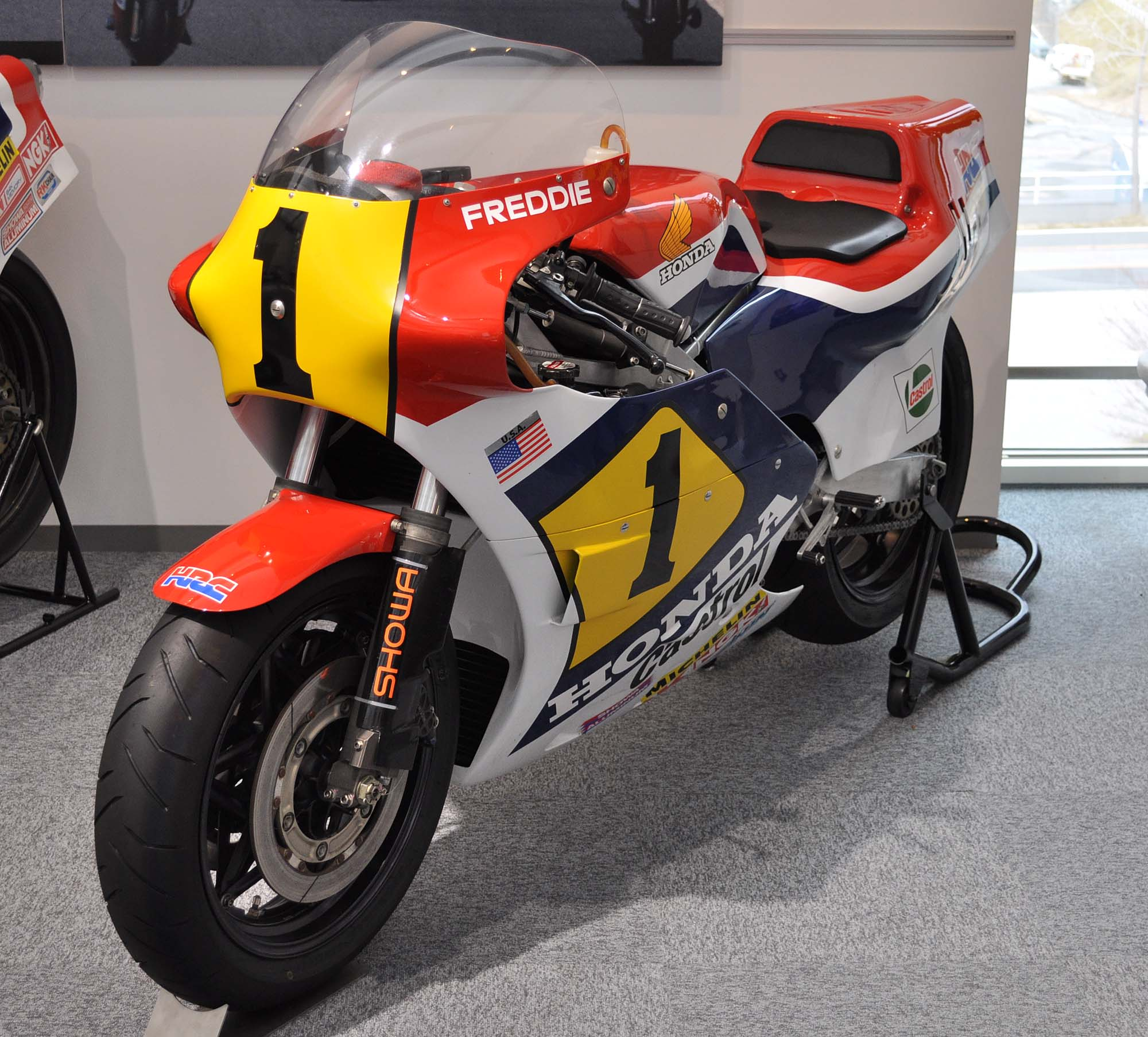 Honda NS500 (Freddie Spencer, 1984)